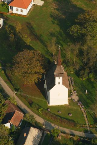 Csaroda, hungary, aerial photogrphy This is a photo of a monument in Hungary, Identifier: 8205